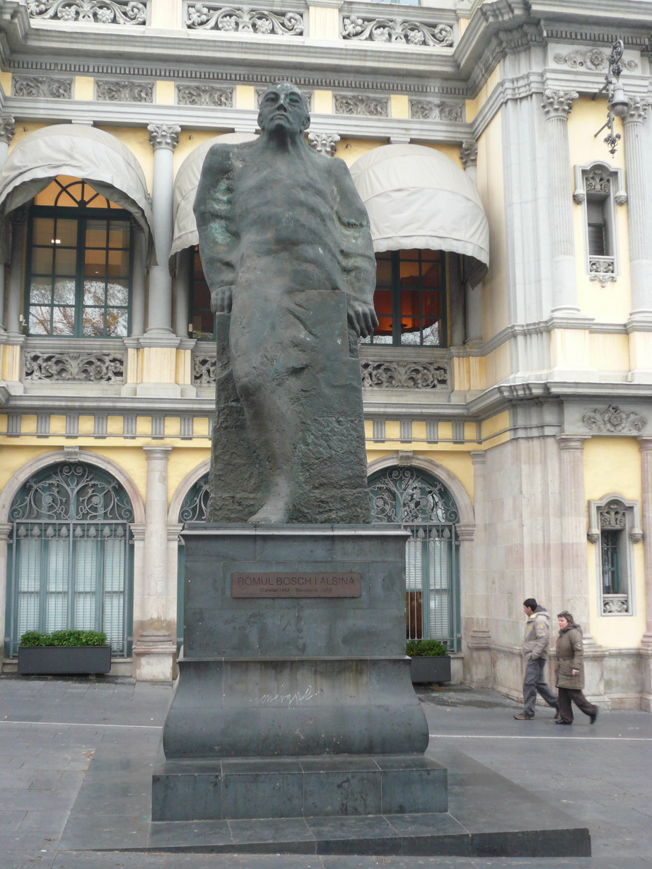 Monument to late major of Barcelona Ròmul Bosch i Alsina, by Robert Krier and Léon Krier.